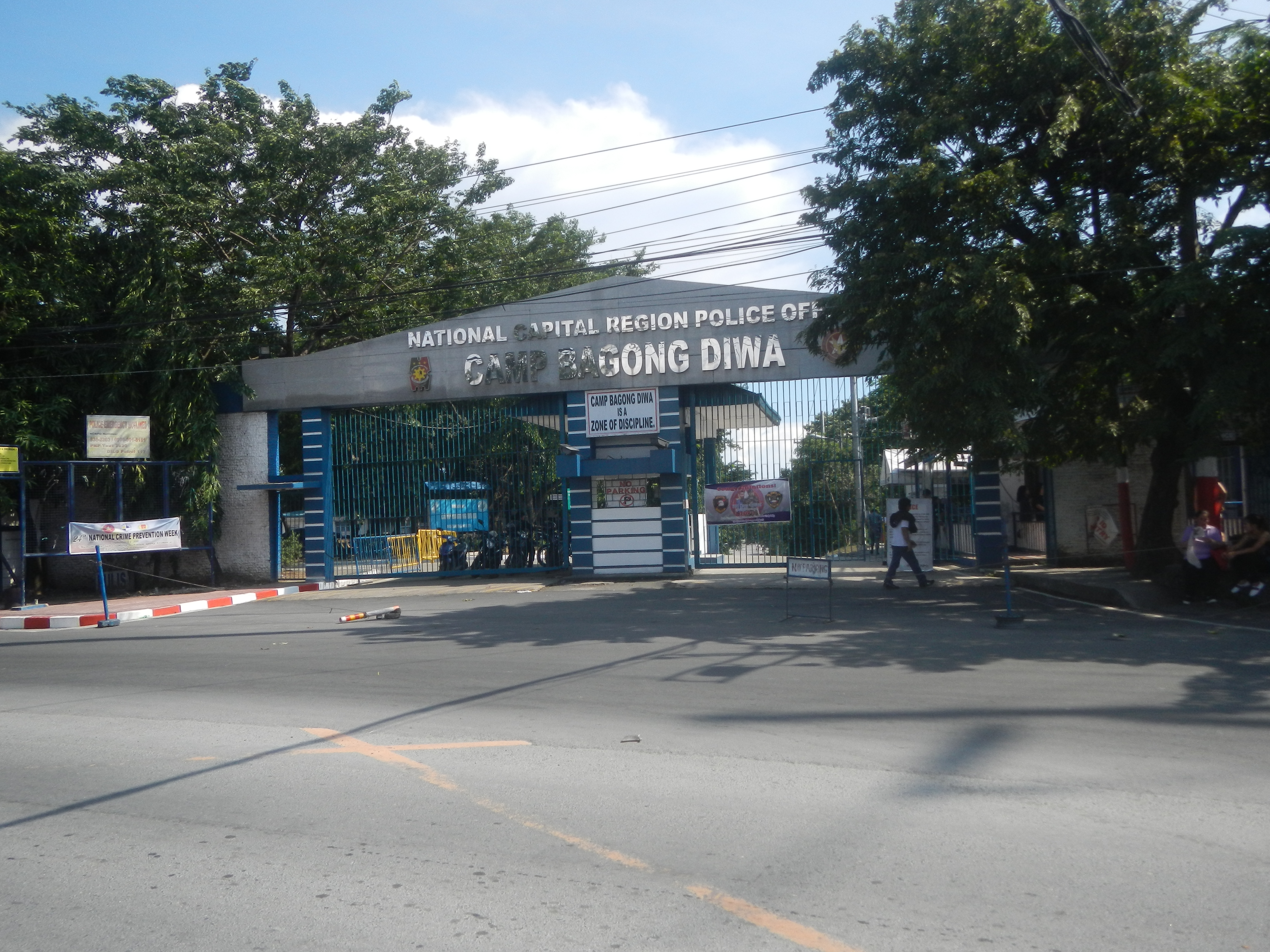 Upper Bicutan, Taguig City Camp Bagong Diwa, NCR Police Office, Bicutan, Taguig City General Santos Avenue Our Lady of the Holy Rosary Parish Church (Purok 5, M.L. Quezon Street, Lower Bicutan, Taguig City) 1632 Bicutan Parochial School Roman Catholic Diocese of Pasig Lower Bicutan, Taguig City Legislative district of Taguig City Legislative district of Pateros-Taguig City Barangay Lower Bicutan 14°29'18"N 121°3'39"E beside Bagumbayan 14°28'33"N 121°3'18"E Bagumbayan, Taguig, Taguig City (Note: Judge Florentino Floro, the owner, to repeat, Donor Florentino Floro of all these photos hereby donate gratuitously, freely and unconditionally all these photos to and for Wikimedia Commons, exclusively, for public use of the public domain, and again without any condition whatsoever).